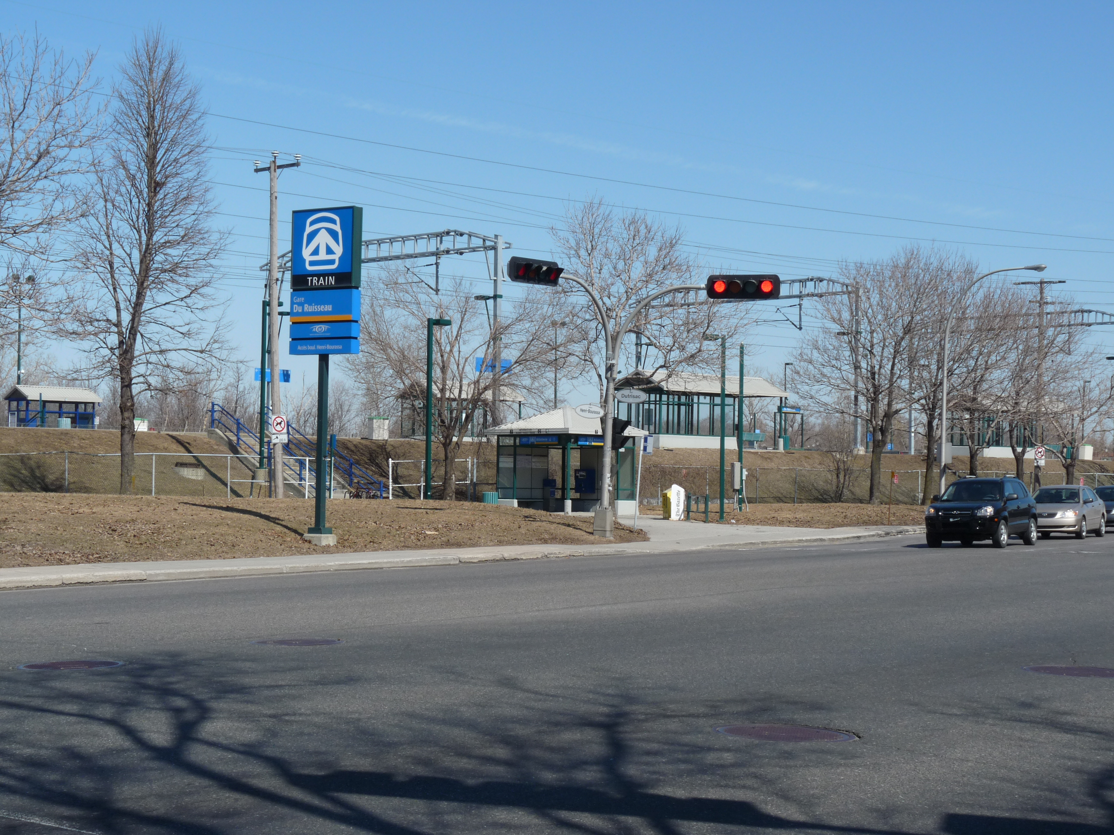 View the entrance from Henri-Bourassa West Blvd of the Du Ruisseau suburb train station in Saint-Laurent burrough of Montreal, Canada. It part of the Montreal-Deux-Montagnes train line of the AMT.